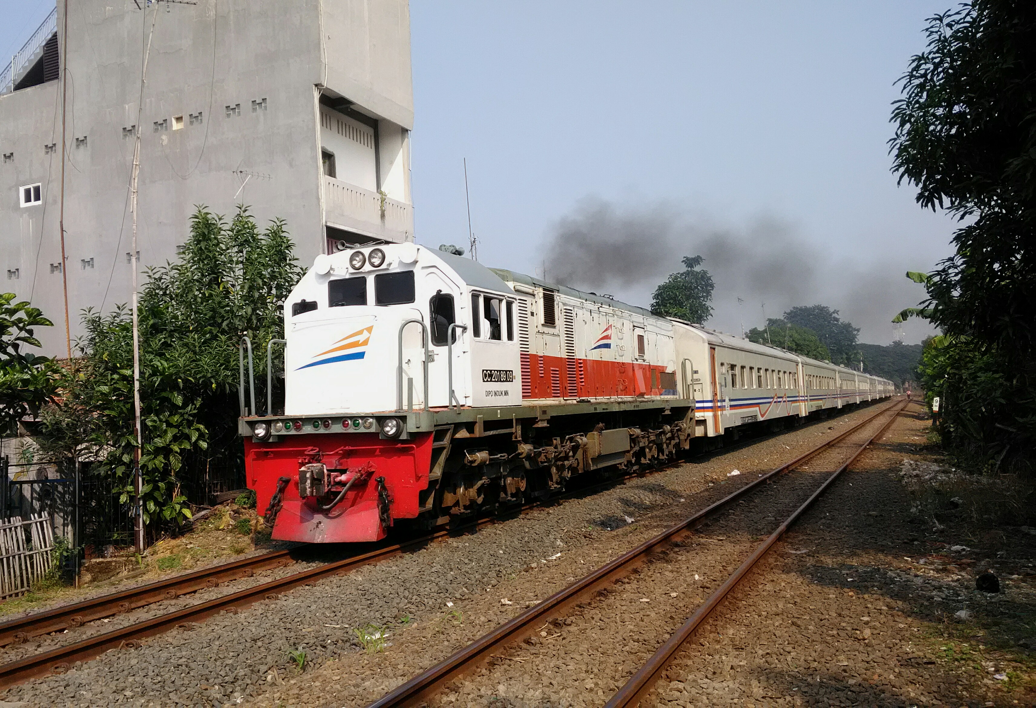 Jaka Tingkir Train acrossing Sukamulya area, Pucung